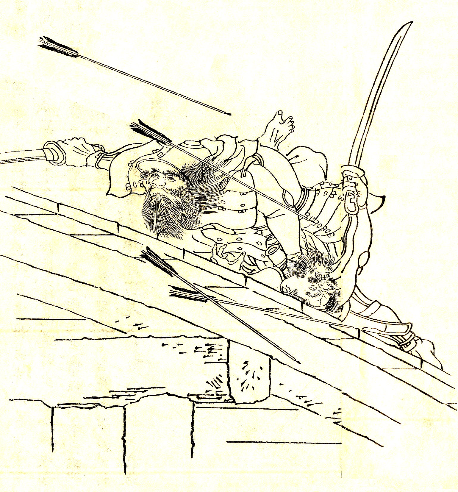 Chison(智尊) was a legendary hero in ancient history of Japan.